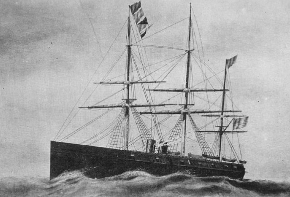 From U.S. Navy public domain - Photo #: NH 55209 USS Chattanooga (1866-1872) Halftone reproduction "From an India ink drawing loaned by Mr. Charles H. Cramp", depicting the ship as originally designed, before installation of a bowsprit. U.S. Naval Historical Center Photograph.